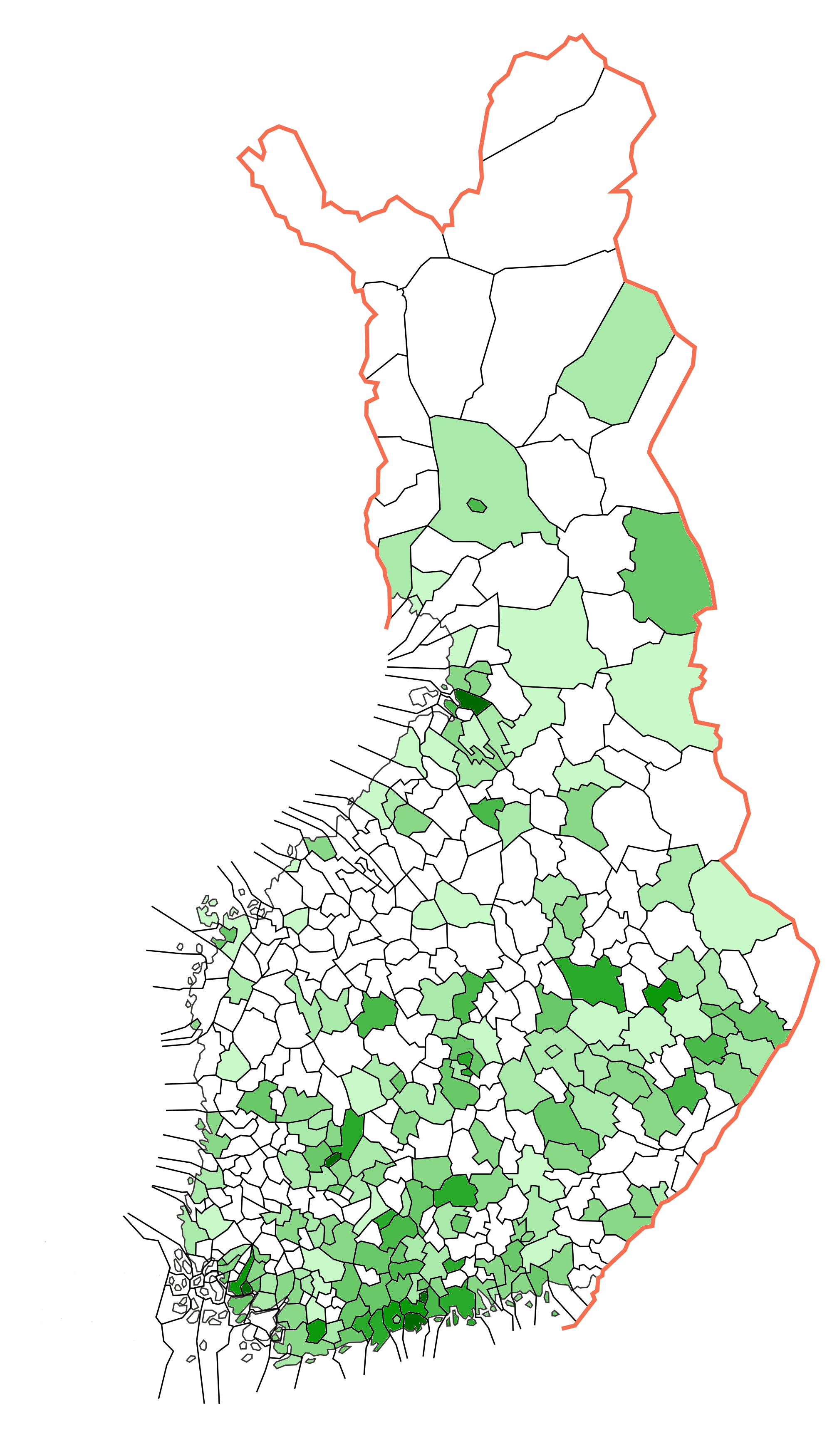 Support gained by the Green League in municipal elections of Finland in 2004.